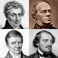 Composite image of Luigi Cherubini, Fromental Halévy, Louis-Pierre Norblin and Friedrich von Flotow